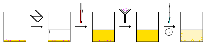 Hot-filtration 1 solvent recrystallisation: Solvent added (clear) to a mixture of compound (orange) + insoluble substance (purple) Solvent heated to give saturated compound solution (orange) + insoluble substance (purple) Saturated compound solution (orange) filtered to remove insoluble substance (purple) Saturated compound solution (orange) allowed to cool overtime to give crystals (orange) and a non-saturated solution (pale-orange). i.e → Solvent added (clear) to a mixture of compound (orange) + insoluble substance (purple) → Solvent heated to give saturated compound solution (orange) + insoluble substance (purple) → Saturated compound solution (orange) filtered to remove insoluble substance (purple) → Saturated compound solution (orange) allowed to cool over time to give crystals (orange) and a non-saturated solution (pale-orange).